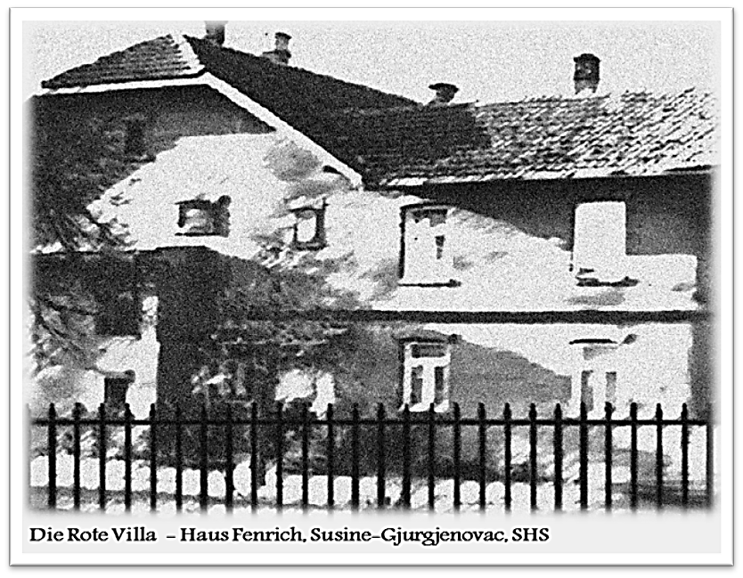 Old photograph of a historic house in Susine-Gjurgjenovac (present Croatia), locally known as "The red villa" (die Rote Villa).